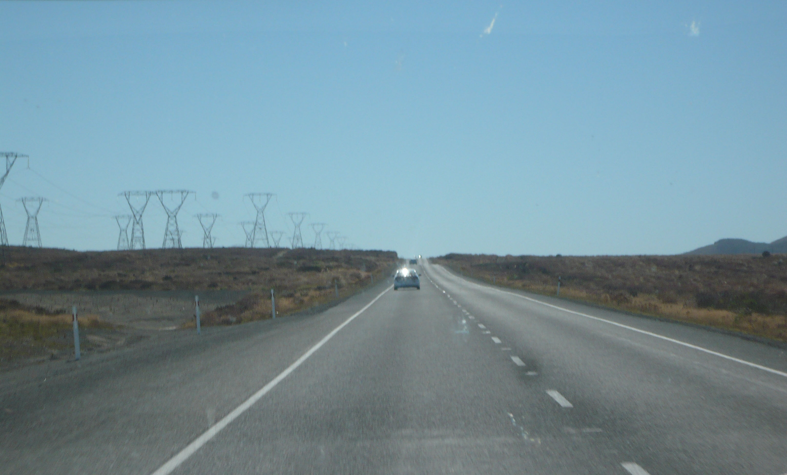 Traveling north on the Desert Road (New Zealand State Highway 1) in the central North Island